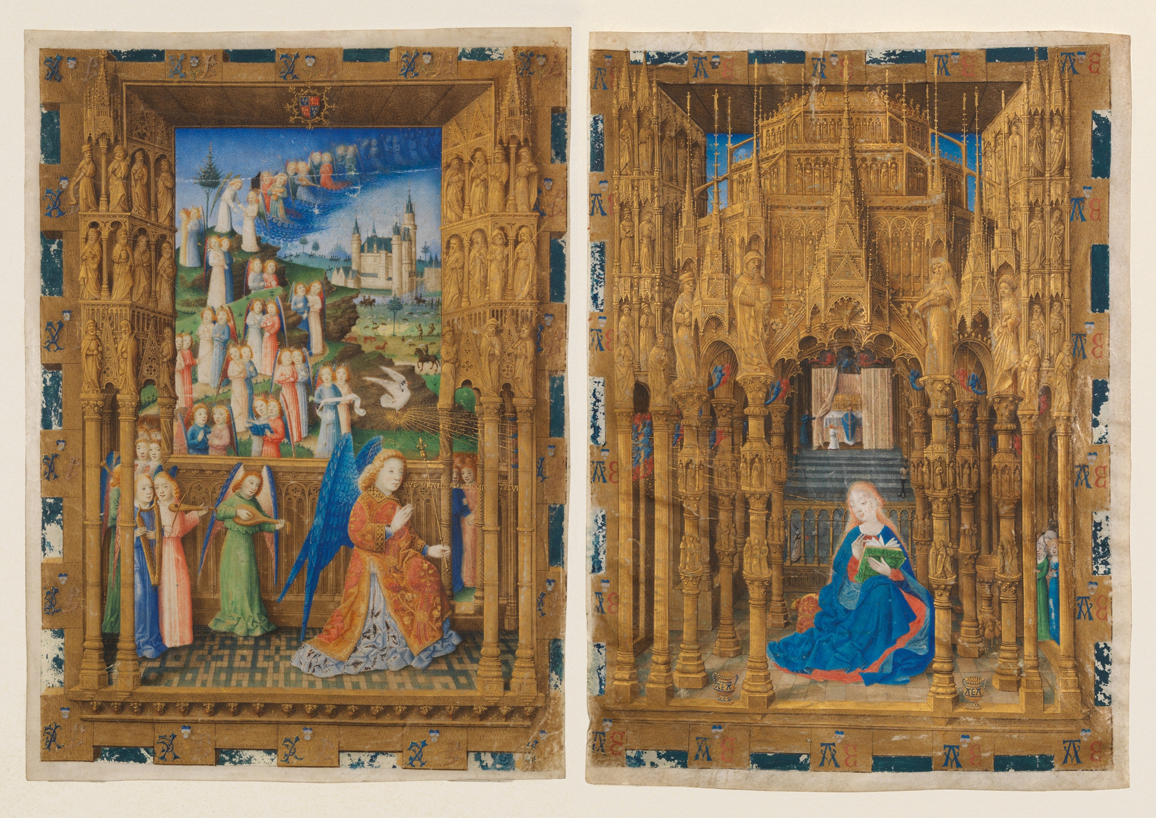 French; Book of Hours; Manuscript leaf; Manuscripts and Illuminations